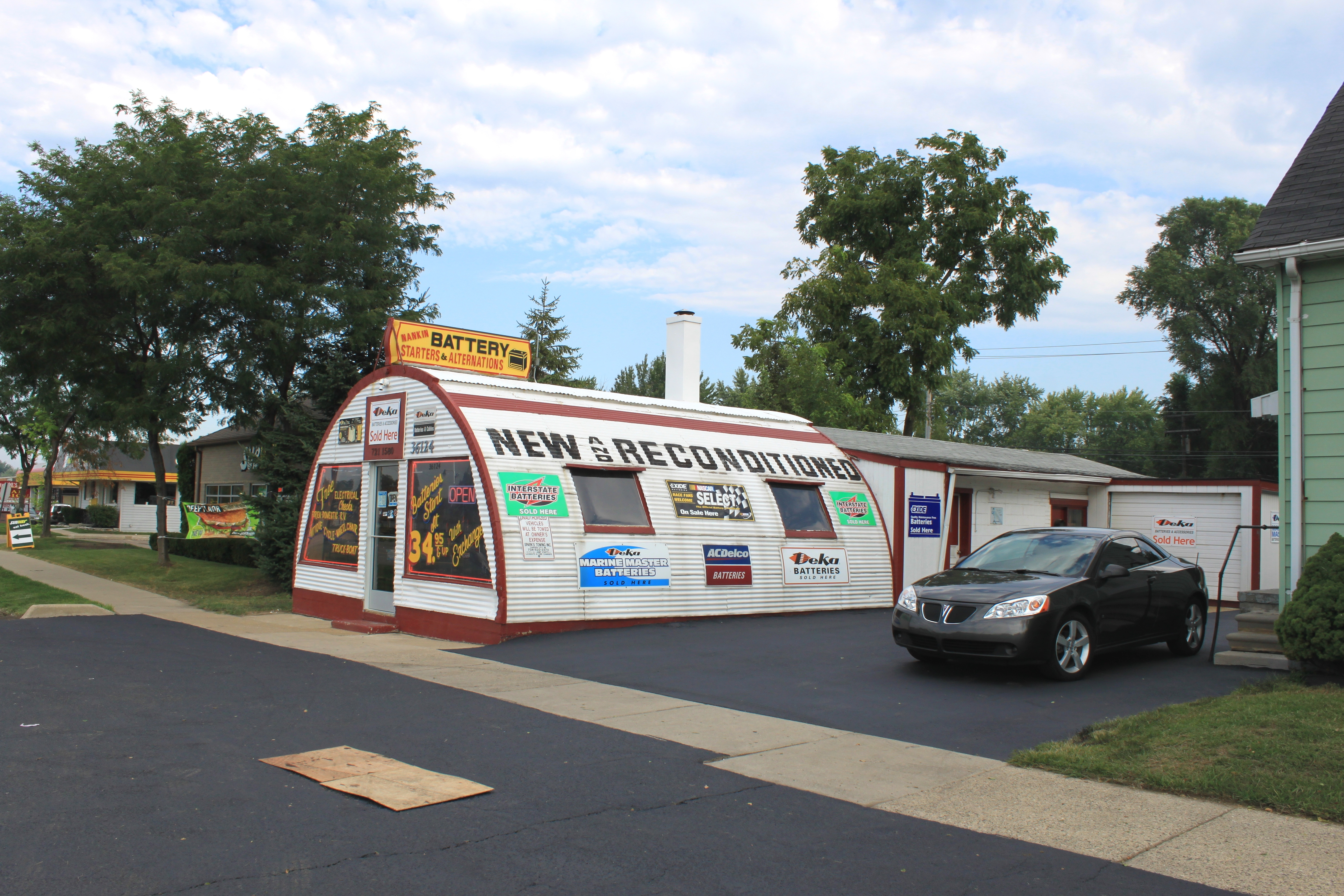 Nankin Value Battery Quonset hut, 36124 Ford Road, Westland, Michigan.